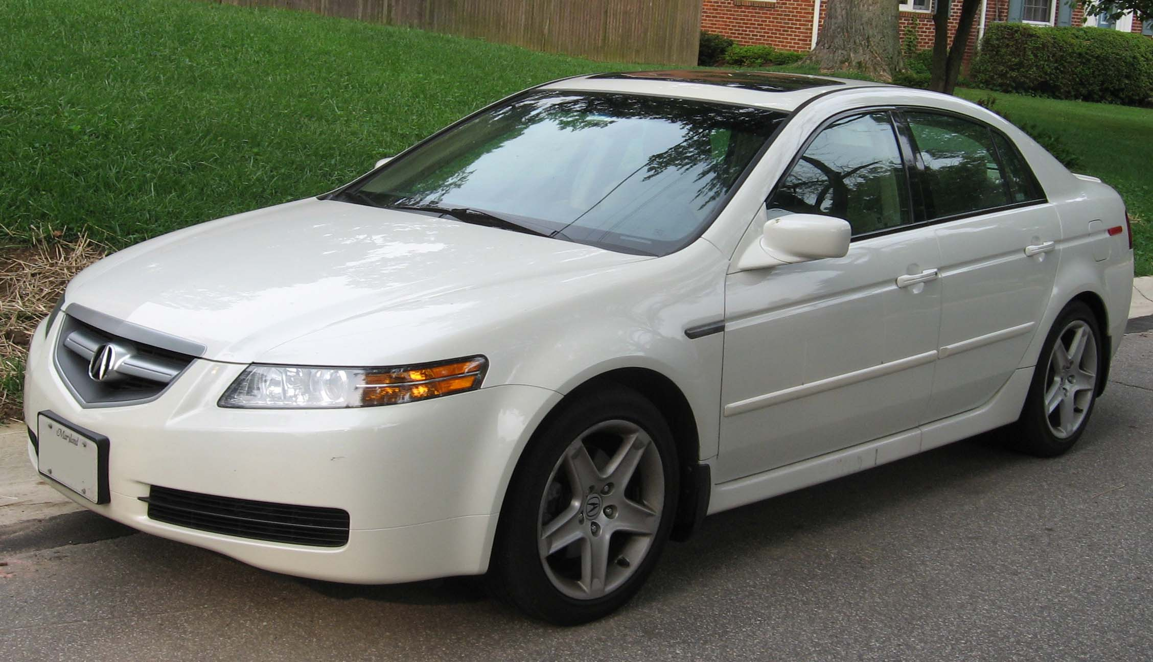 2004-2006 Acura TL photographed in Kensington, Maryland, USA.